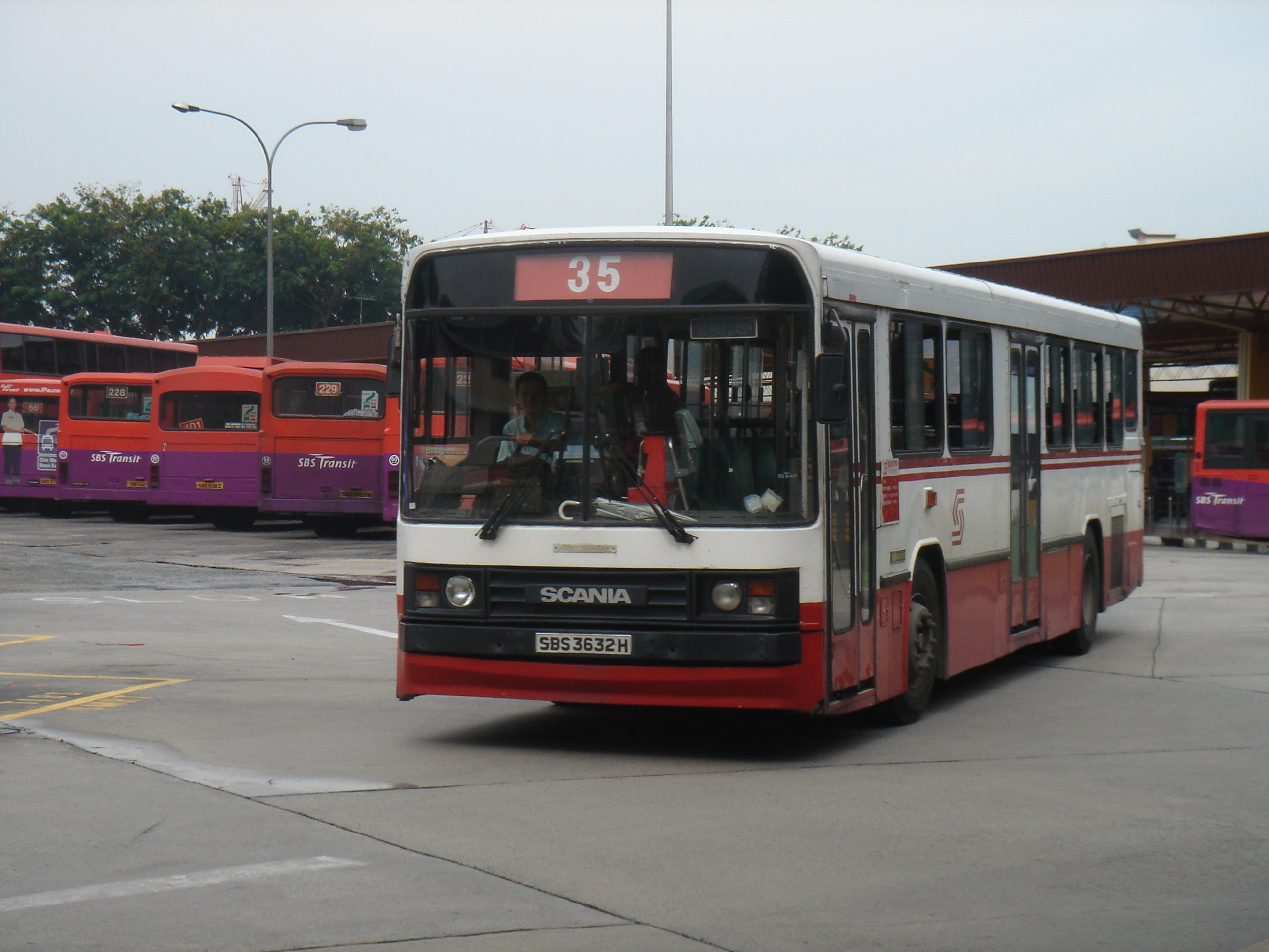 SBS Transit Alexander PS bodied Scania N113CRB (non a/c) bus (SBS3632H, built 1990) at Bedok Bus Interchange, Singapore. (Previous version shows original a/c in SBS livery)